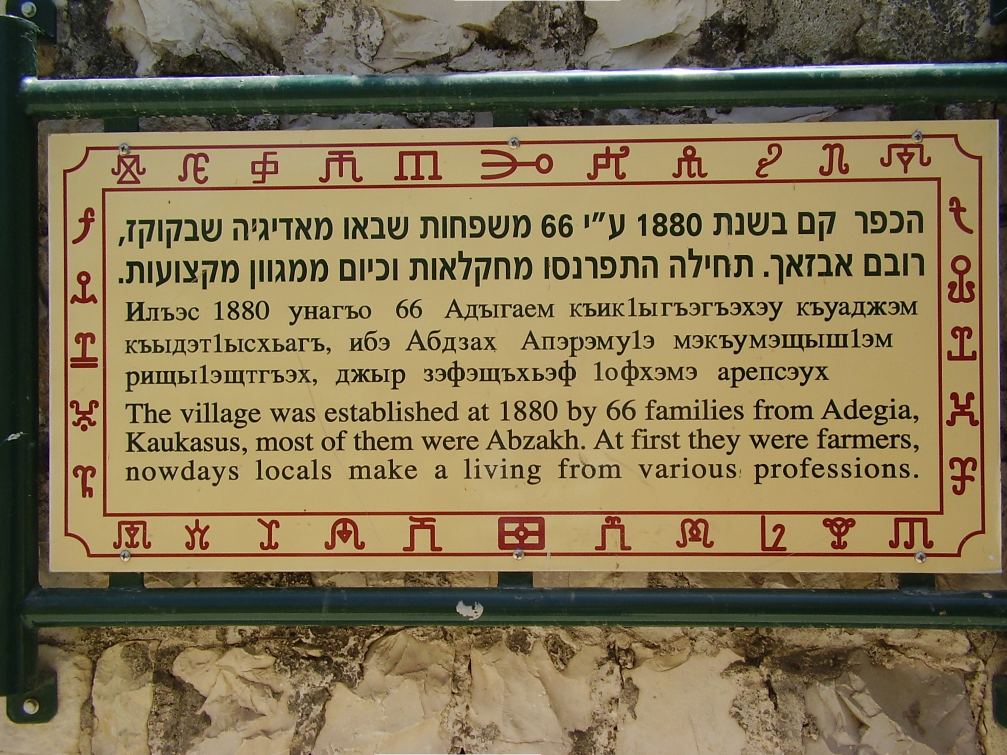 rihaniya in upper galilee